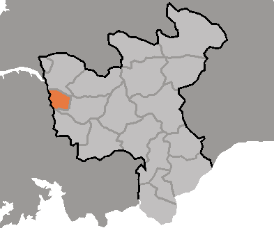 Map of Sariwon, Hwanghae-pukto, DPRK, 2006